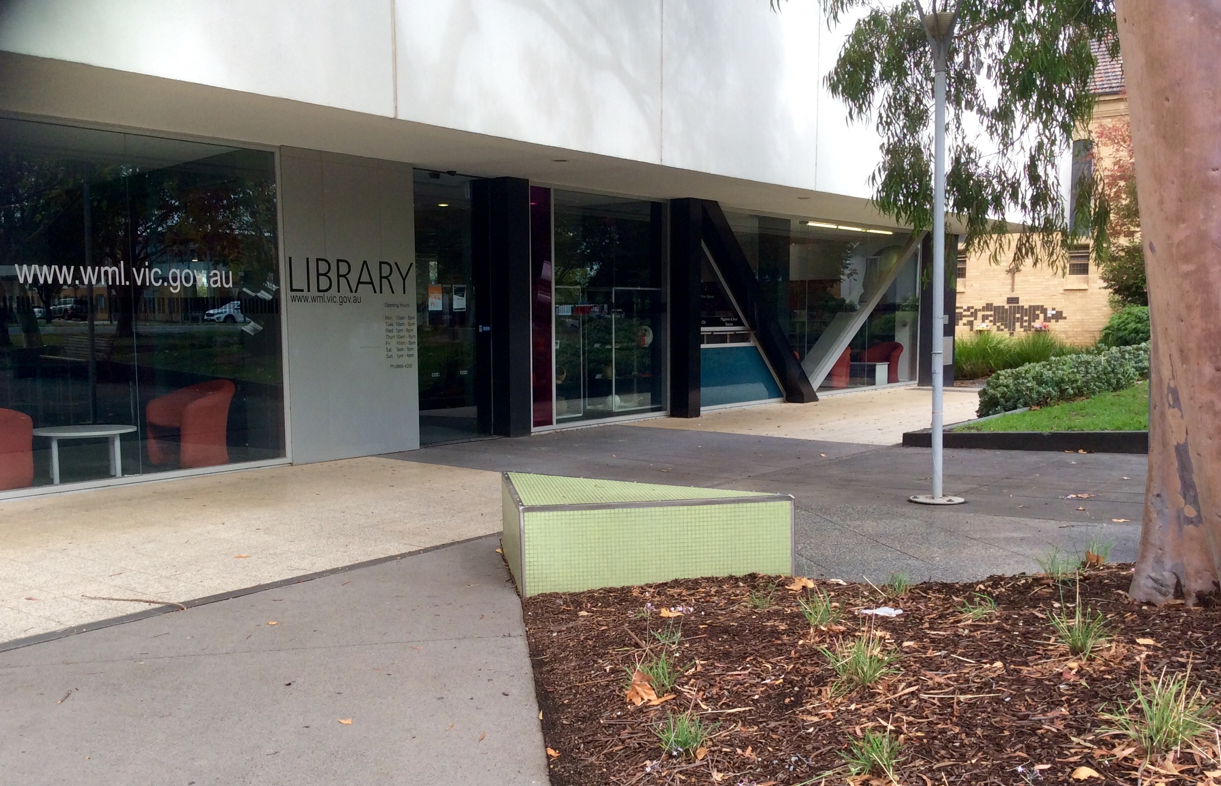 Box Hill Library on Whitehorse Road is a branch of the Whitehorse Manningham Regional Libraries Corporation